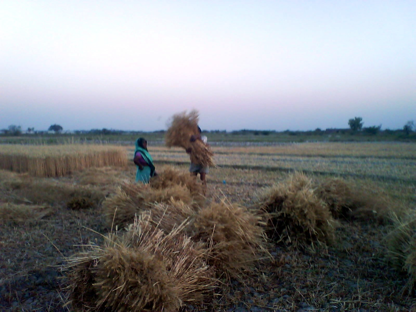 This is Image where farmers are involved in wheat harvesting.